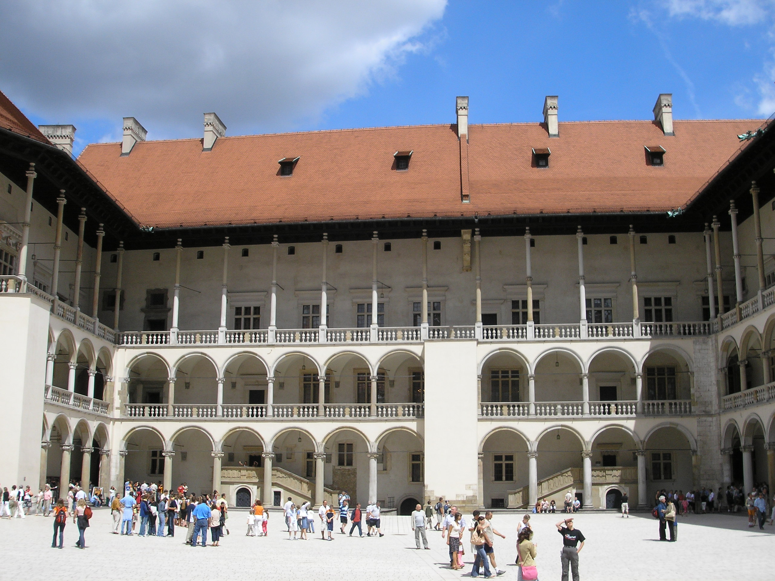 Courtyard of Wawel Royal Castle in Kraków.